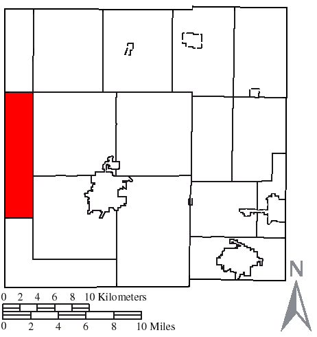 Made by the US Census and modified by myself